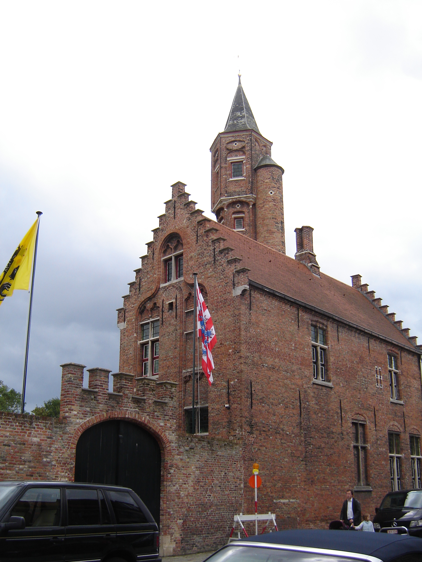 Buildings of "Schuttersgilde Sint-Sebastiaan" (St. Sebastian's Acher's Guild) in Brugge. Brugge, West-Flanders, Belgium.